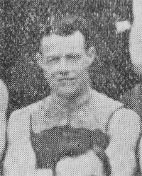 Charlie Tough from 1902–1905